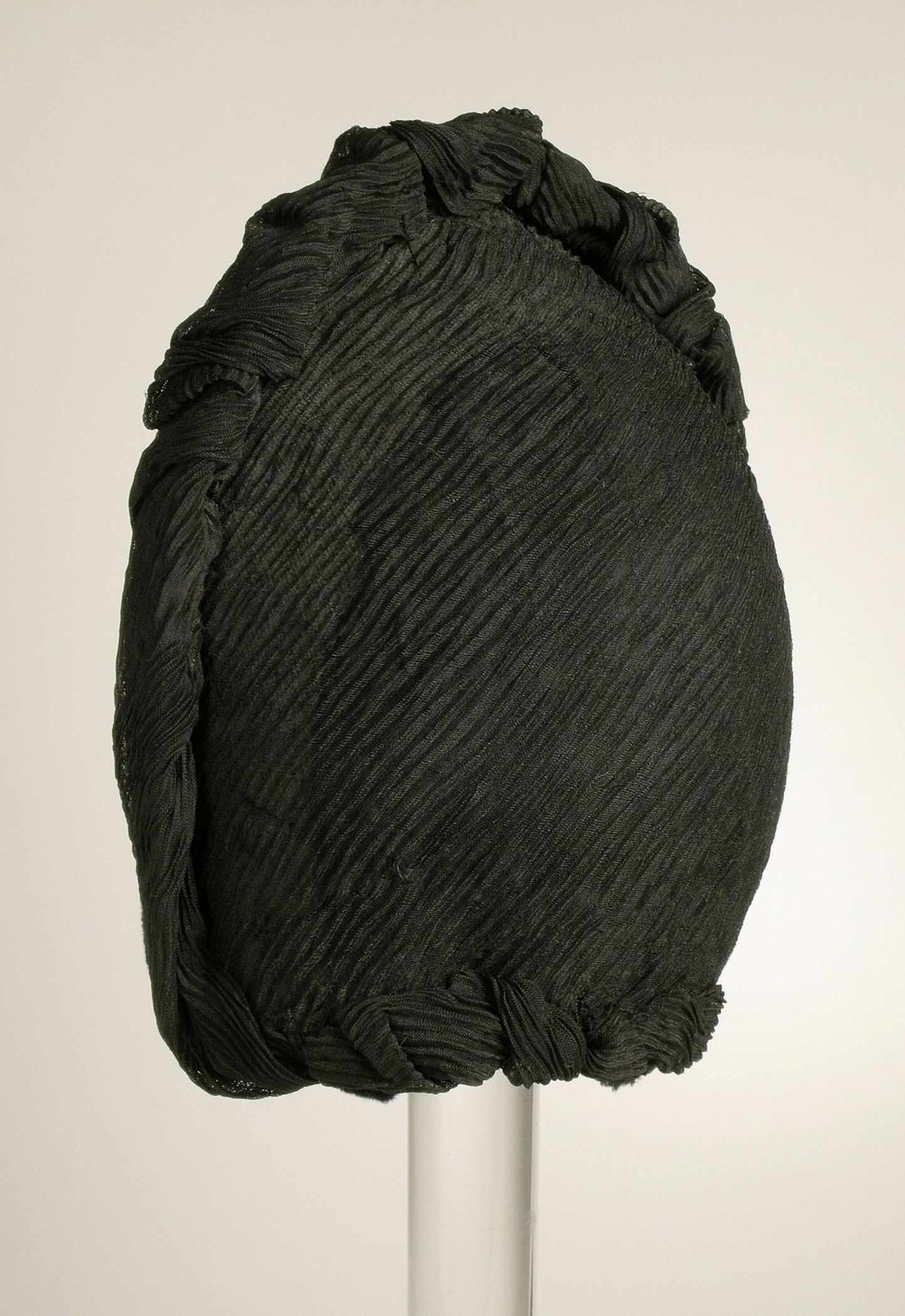 United States, 1880s Costumes; Accessories Silk crape Gift of Mrs. Margaret Elm Bryner (41.11.8) Costume and Textiles